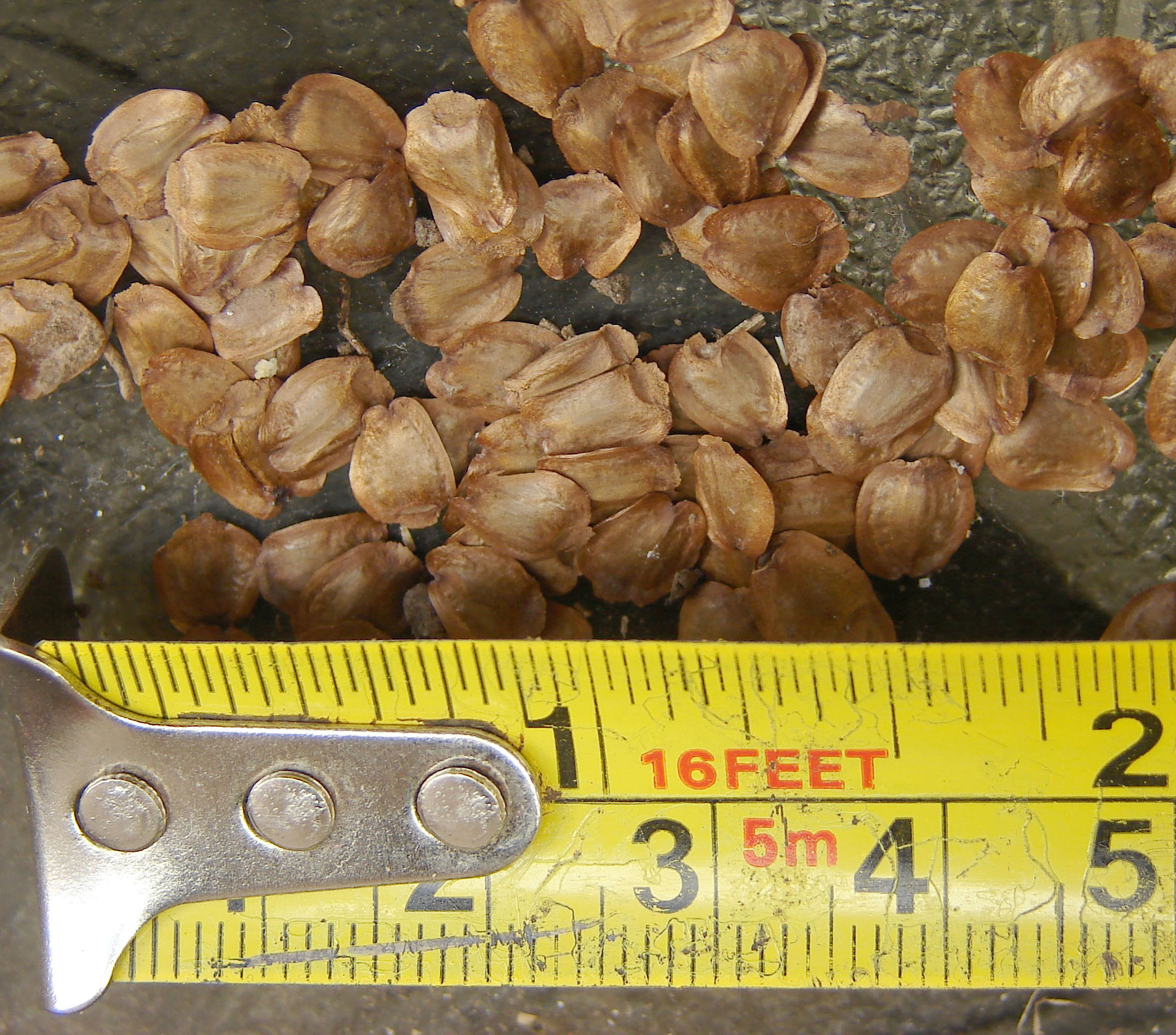 Cunninghamia lanceolata seeds already released collected from the ground